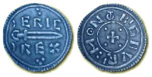 Coin minted at York, 947 x 954. Obverse legend reads ERIC REX (Eric 'Bloodaxe'), reverse: moneyer Radulf. Herbert Appold Grueber (1846-1927). Handbook of the Coins of Great Britain and Ireland in the British Museum. London, 1899. Plate 1, coin no. 119 (described at p. 21).